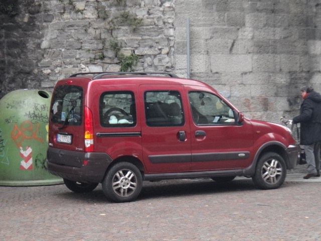 We never got any 4X4 Kangoo's in Australia, which is a bit strange, considering we received the Scenic RX4 and that sold well for Renault here. MPV versions of these types of little vans generally don't get offered to the Australian market, they stay mainly just as an LCV/Cargo van. The Volkswagen Caddy is about the only small van that offers both.